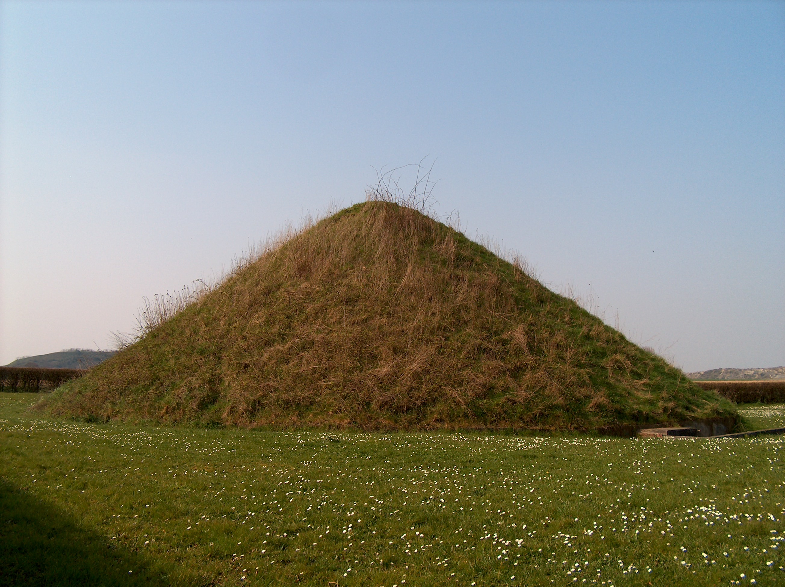 The Tumulus du Trou de Billemont, Antoing, Hainaut, Belgium.